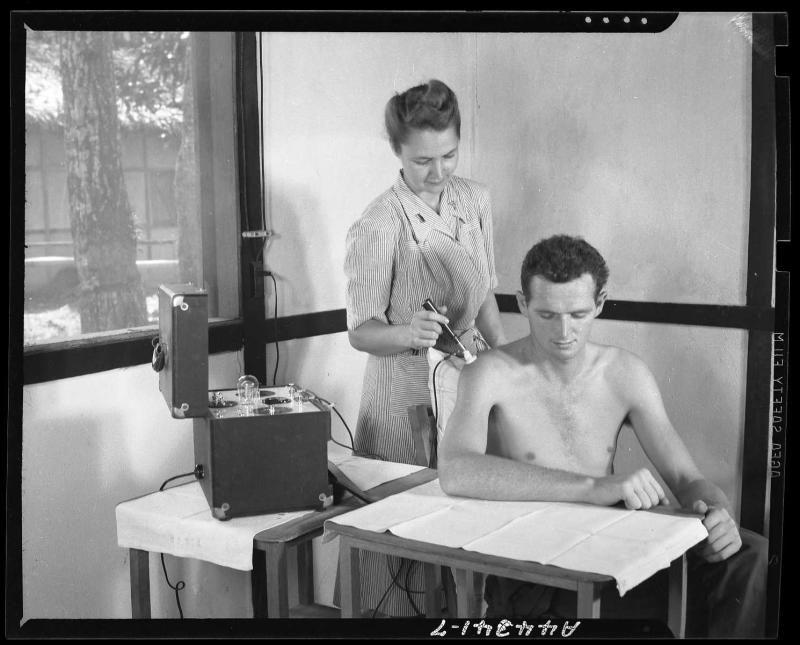 Physical therapy activities at the 20th General Hospital. Patient seated at a table with a woman applying an electrical [?] instrument to his shoulder. World War 2. 1st Medical Detachment. Museum and Medical Arts Services (MAMAS)